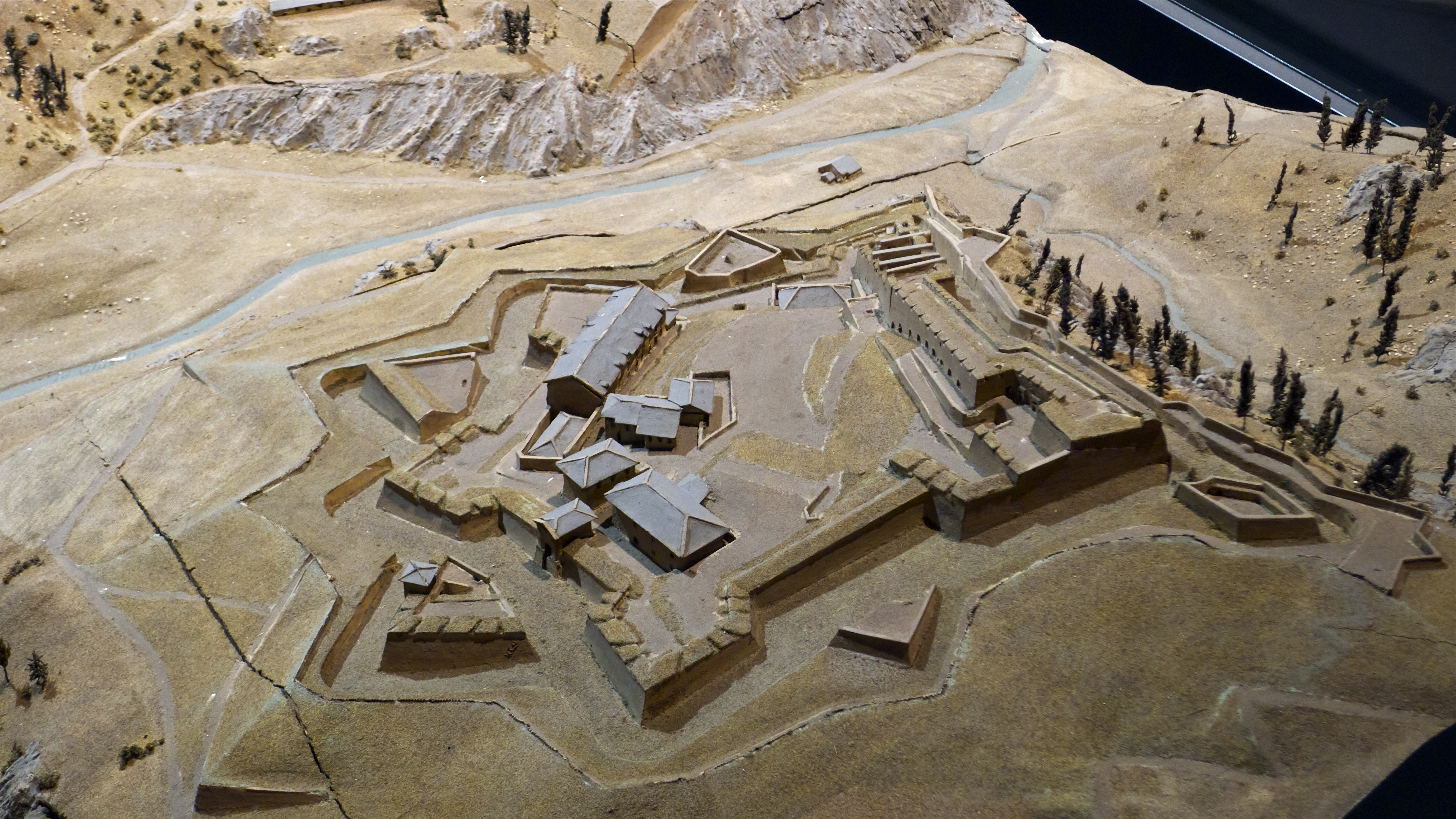 Fort Mutin at Fenestrel. Detail from the plan-relief of Fenestrelle built in 1757 under the direction of Marciot. Scale 1/600